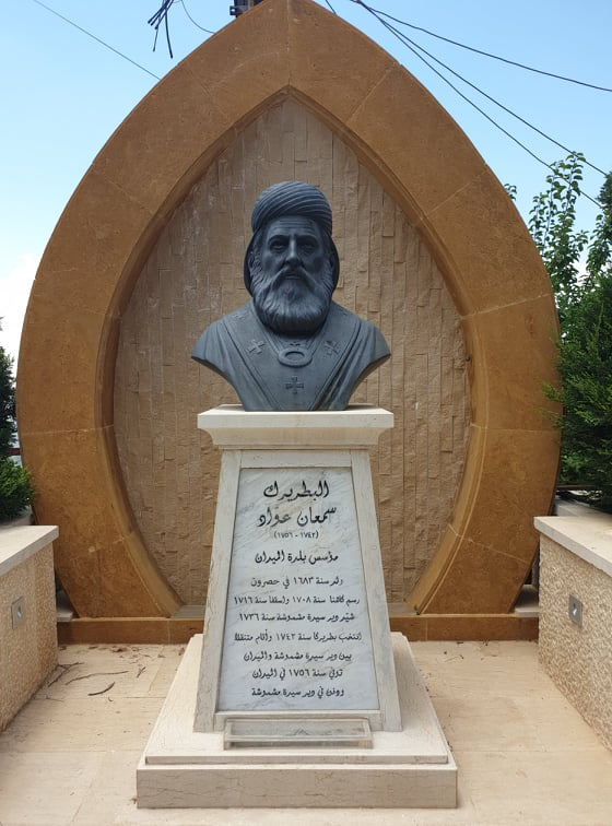 Bust of Simon Awad at Al-Midan, Lebanon